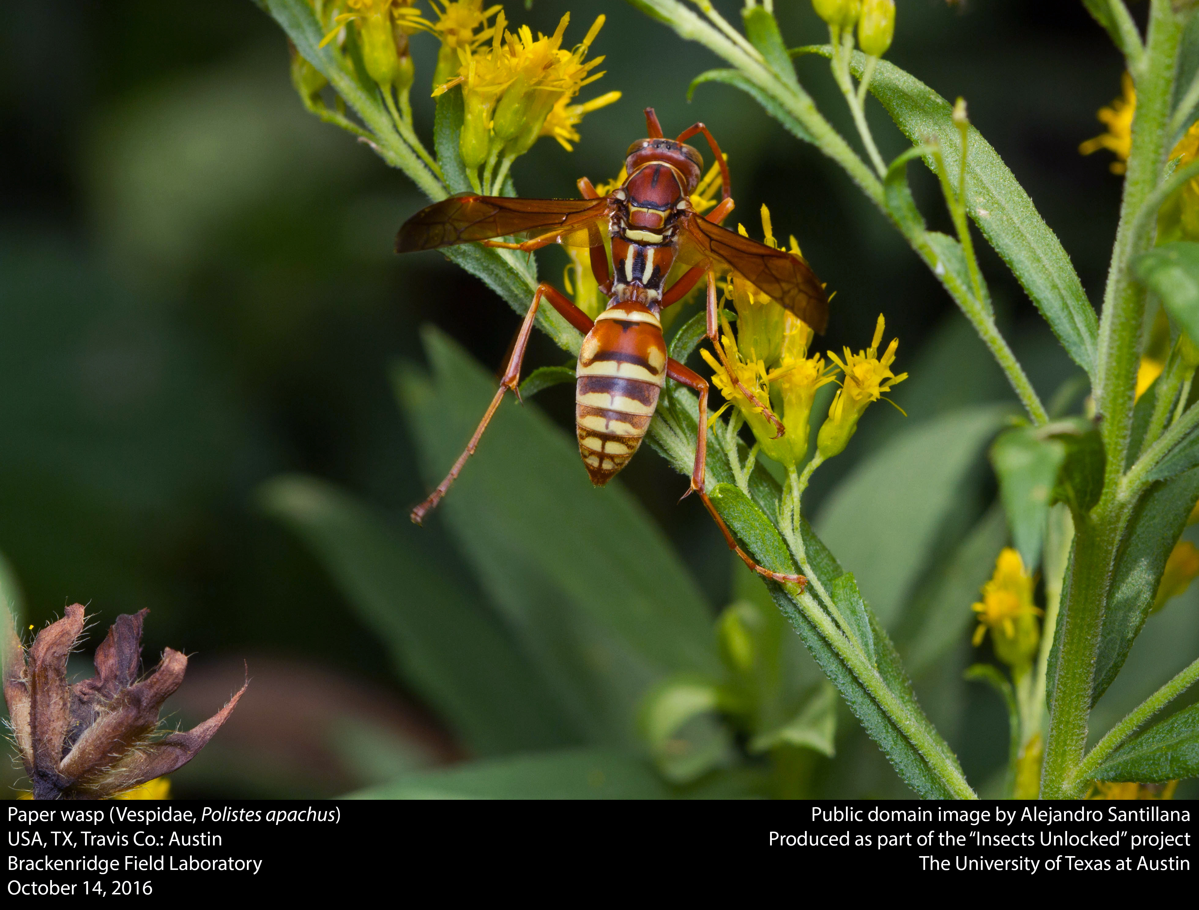 USA, TX, Travis Co.: Austin Brackenridge Field Laboratory 14-x-2016